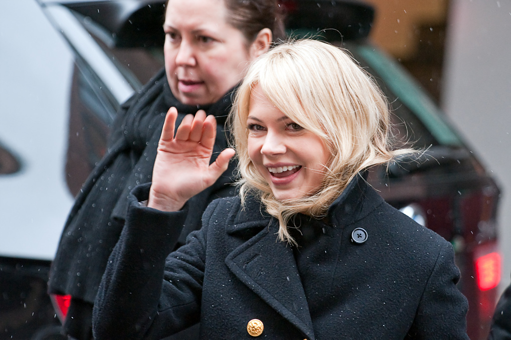 American actress Michelle Williams leaving the press conference for the film Shutter Island in the snow.